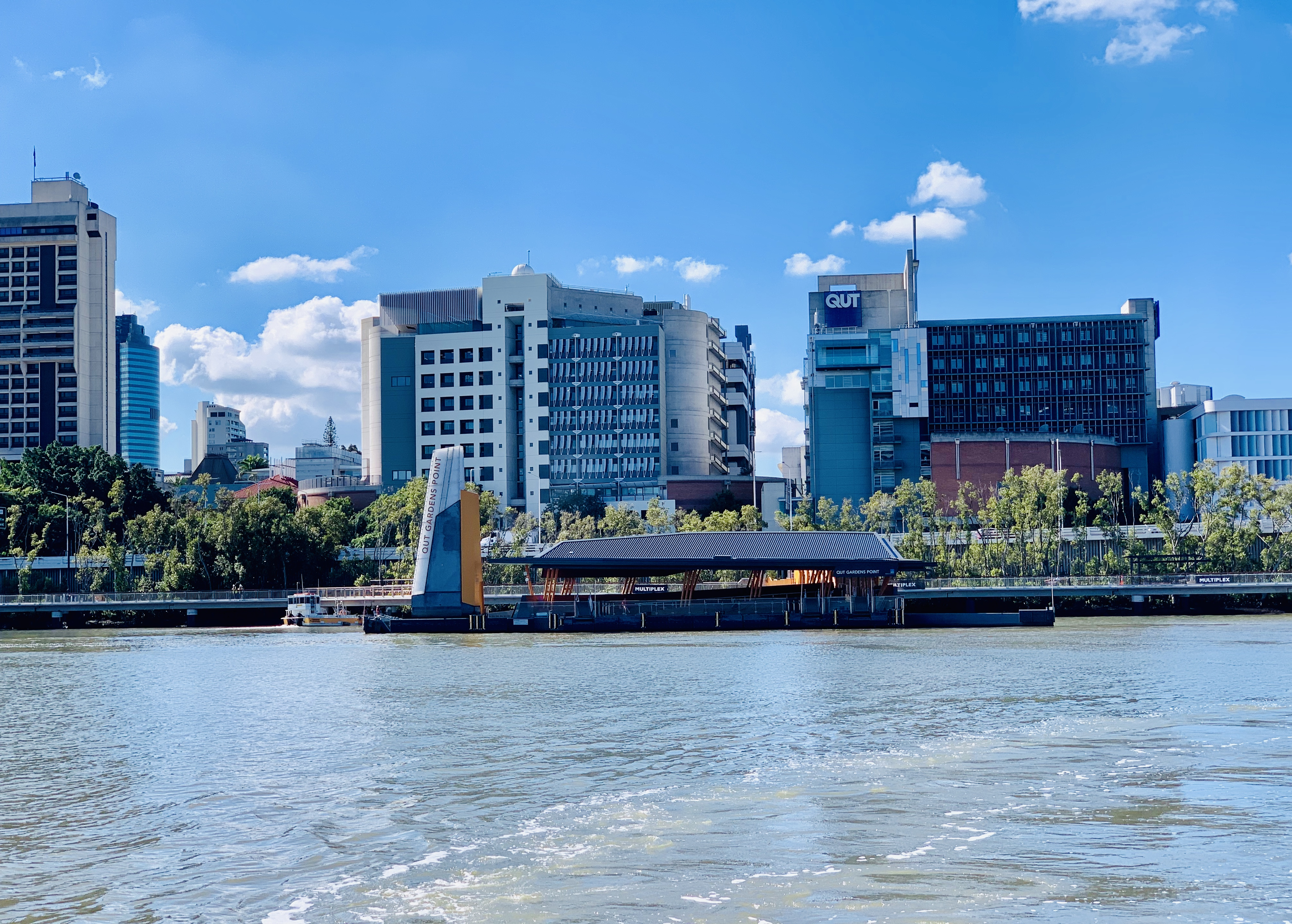 QUT Gardens Point ferry wharf seen from the river, June 2019